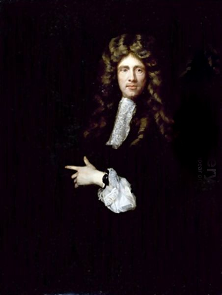 George Savile, 1st Marquess of Halifax (1633-1695)